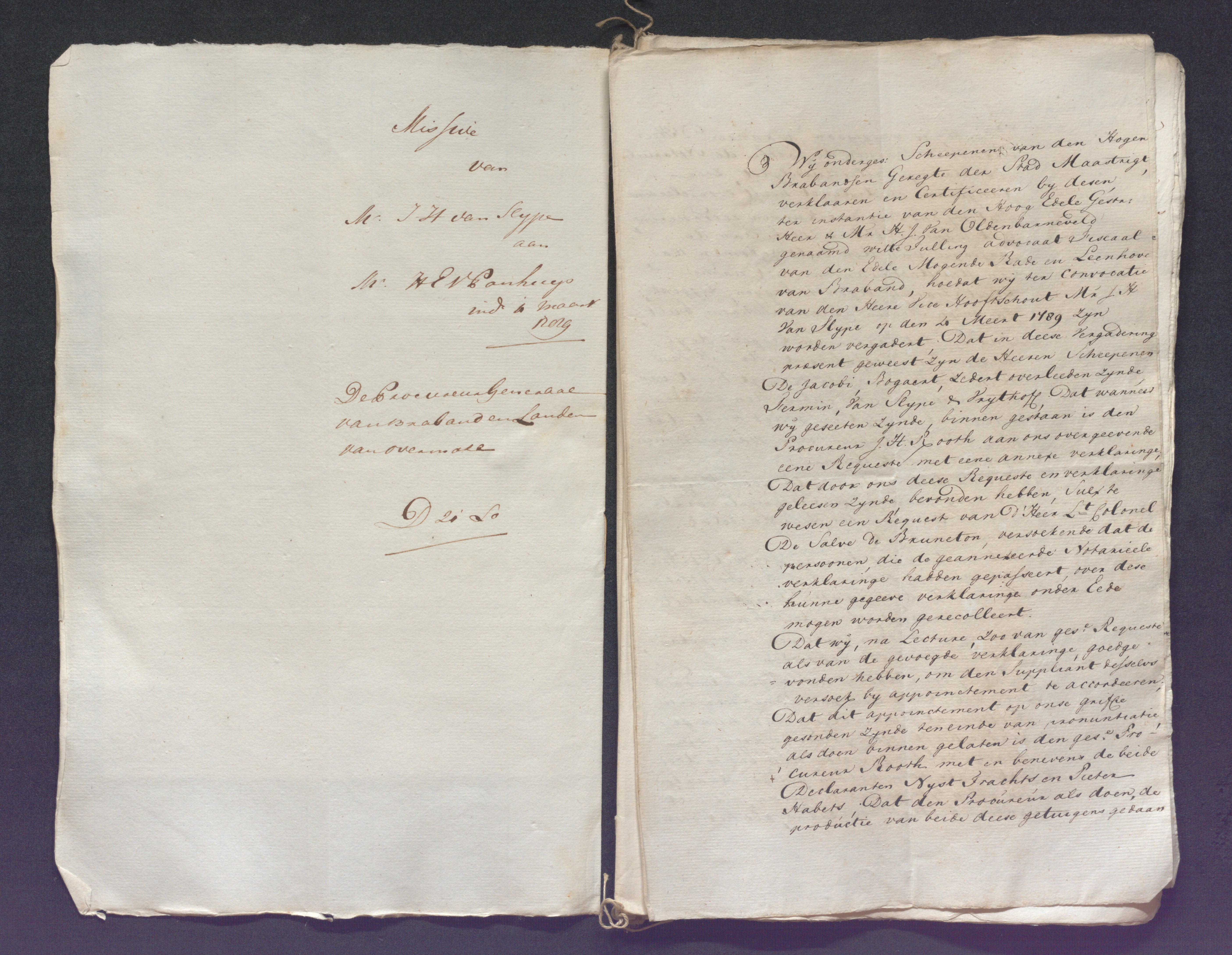 Fragment van het uit 15 pakken bestaande dossier in de zaak Willem Hendrik van Panhuijs bij de Raad van Brabant in Den Haag. De procureur-generaal van de Raad van Brabant, Van Oldenbarneveld genaamd Witte Tullingh, begon in 1797 een criminele procedure tegen Jan Hubert van Slijpe, ex-vice-hoogschout van Maastricht, luitenant-kolonel Jan Anthonie Christiaan de Salve de Bruneton, zijn echtgenote Arnoldina Elisabeth Heldewier, de landbouwers Pieter Habets en Nijst Trachts in Klimmen (wegens mijneed), Johannes Hendrik Rooth, notaris in Maastricht (wegens afleggen van valse verklaringen) in de zaak tegen Willem Hendrik van Panhuijs, rentmeester domeinen en geestelijke goederen in de Landen van Overmaze, die door voornoemden was beschuldigd van het onderhouden van contacten met de veroordeelde en verbannen ex-kolonel Seuillard de Leefdaal. Van Panhuys won de zaak. De verliezers werden veroordeeld; Van Slijpe stierf in gevangenschap in Den Haag voordat het vonnis was uitgesproken.